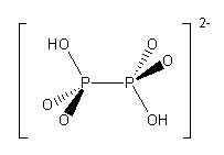 structure of [H2P2O6]2